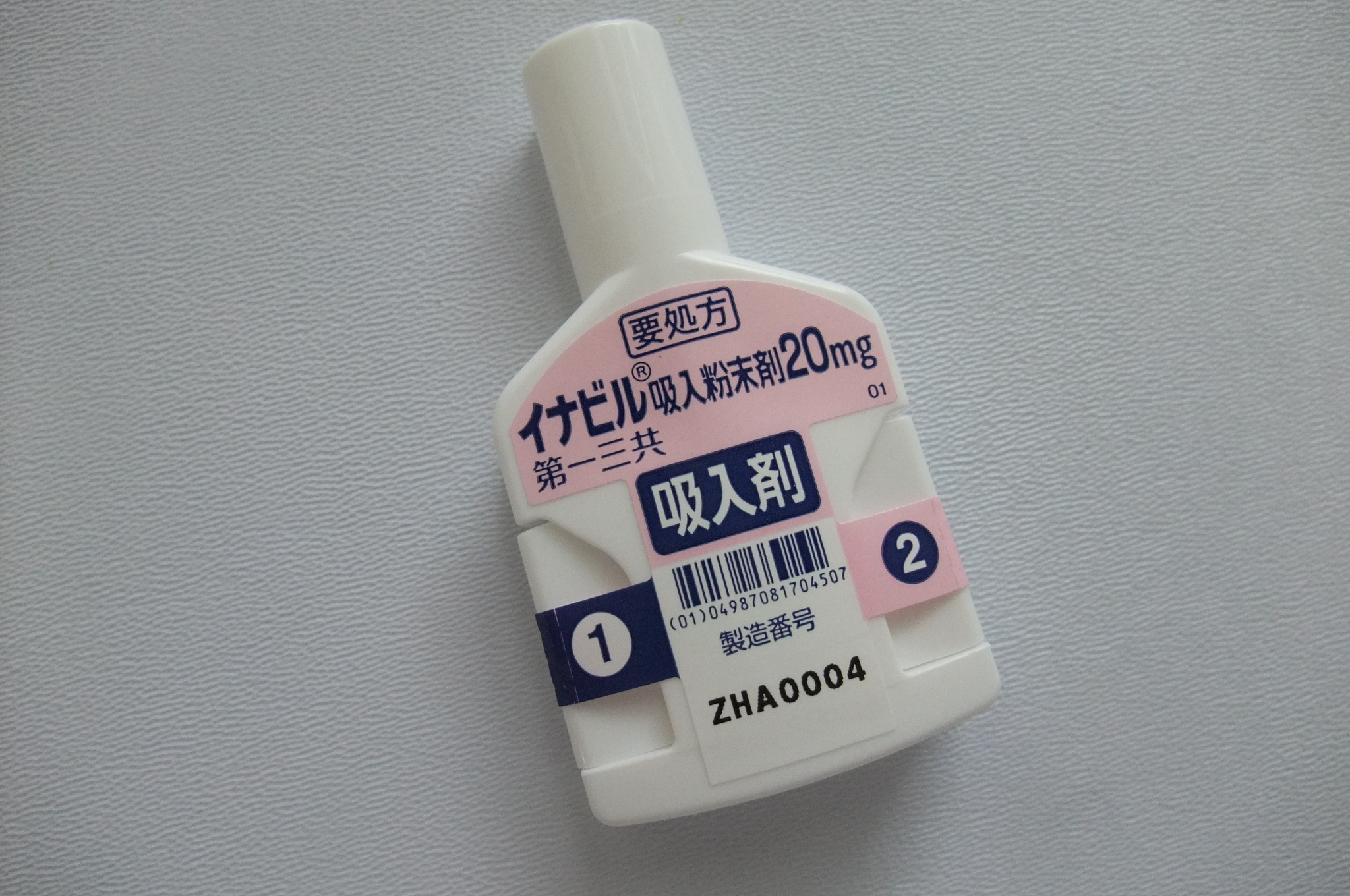 Inavir(R) (laninamivir) is a long-acting neuraminidase inhibitor with therapeutic efficacy after a single dosage developed by Daiichi Sankyo. Inavir(R) shows the same efficacy with a single dose as a five-day administration of oseltamivir.